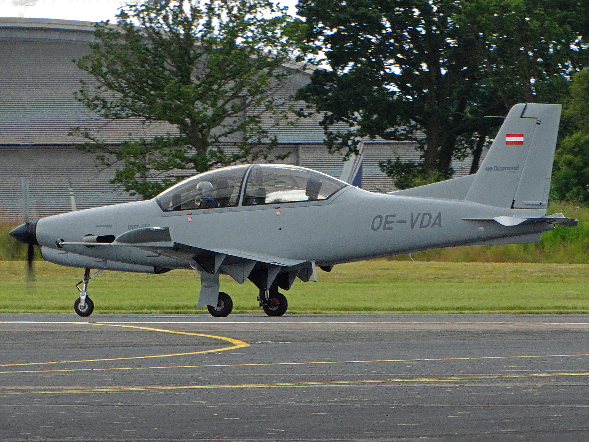 OE-VDA Diamond Dart 450 Prototype at Farnborough Airshow 12/7/16